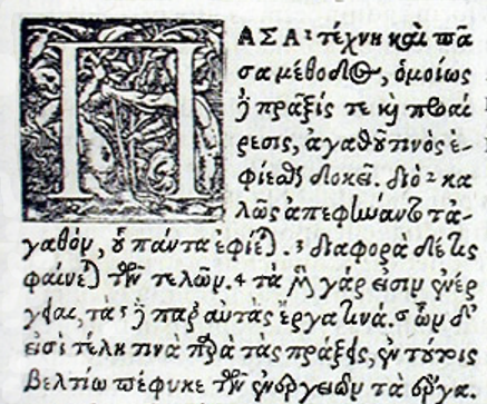 Early Greek print, First page of Aristotle's Nicomachaen ethics, printed Basel: Johannes Oporin und Eusebius Episcopius August 1566. Cropped to demonstrate early Greek print fonts.